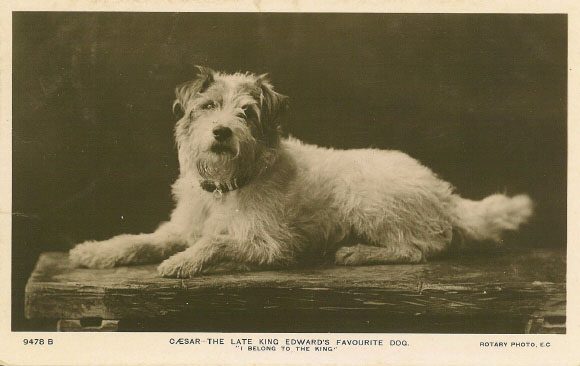 A photographic mass produced postcard produced by the Rotary Photo Company. From the text below the image, it would have been published between the King's funeral and the dog's death - at some point between May 1910 and April 1914.